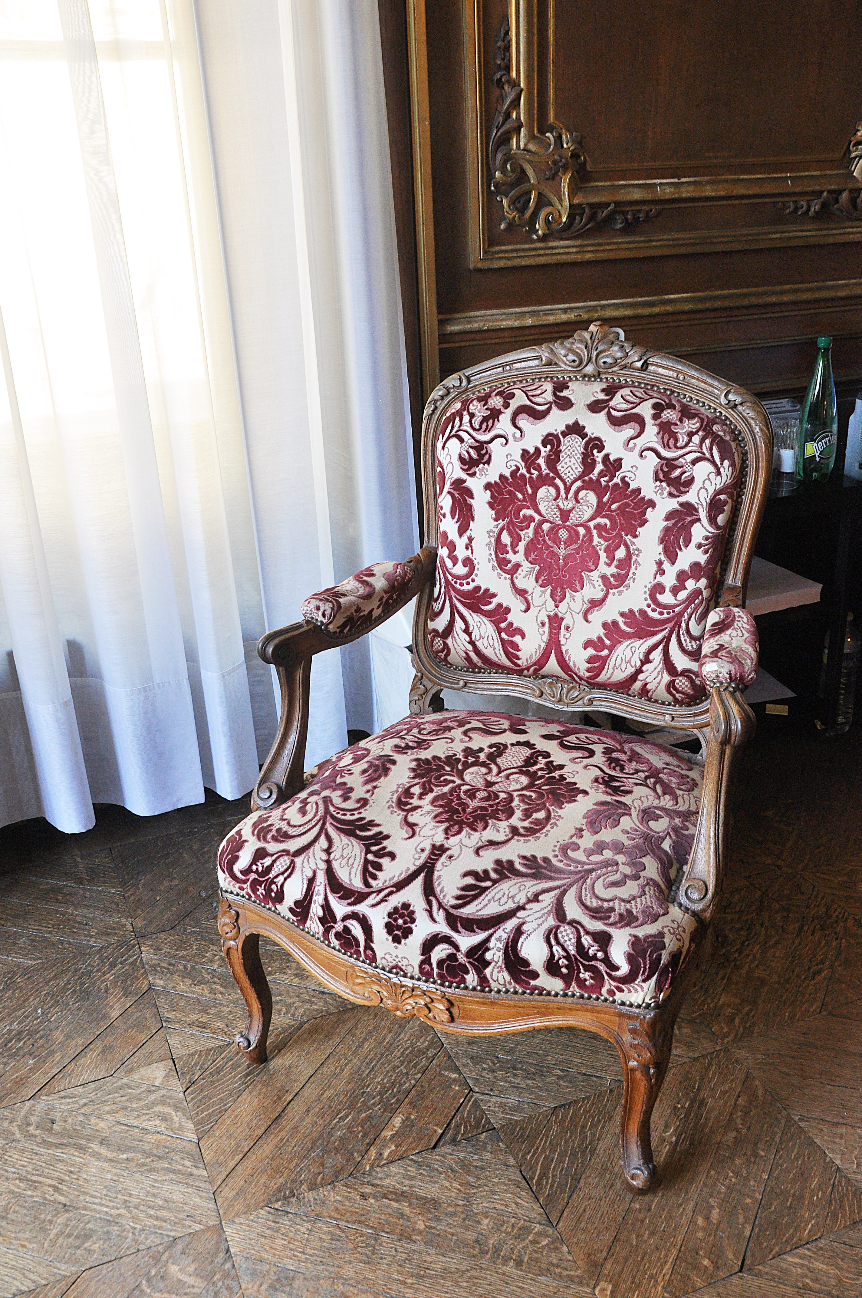 Danton's Office ou Petit Salon in the Hôtel de Bourvallais located at 13 place Vendôme in Paris 1st arrondissement in France. The building currently houses the French Ministry of Justice. The office is decorated in the Rococo style.